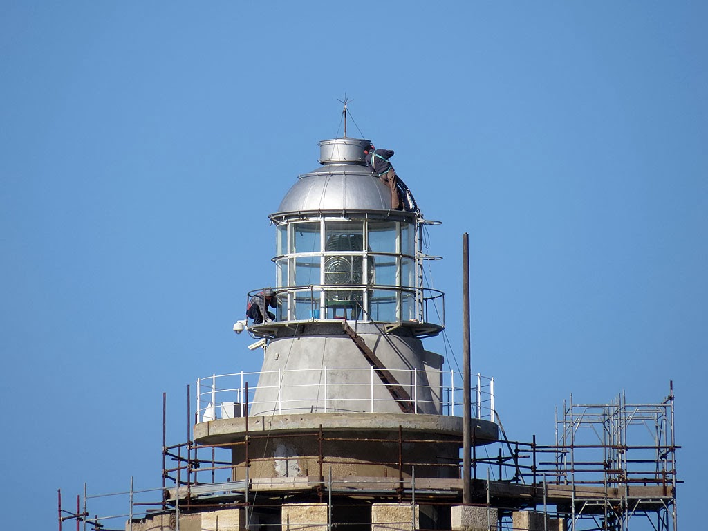 Detail of the lantern, lighthouse at the entrance of the port of Livorno